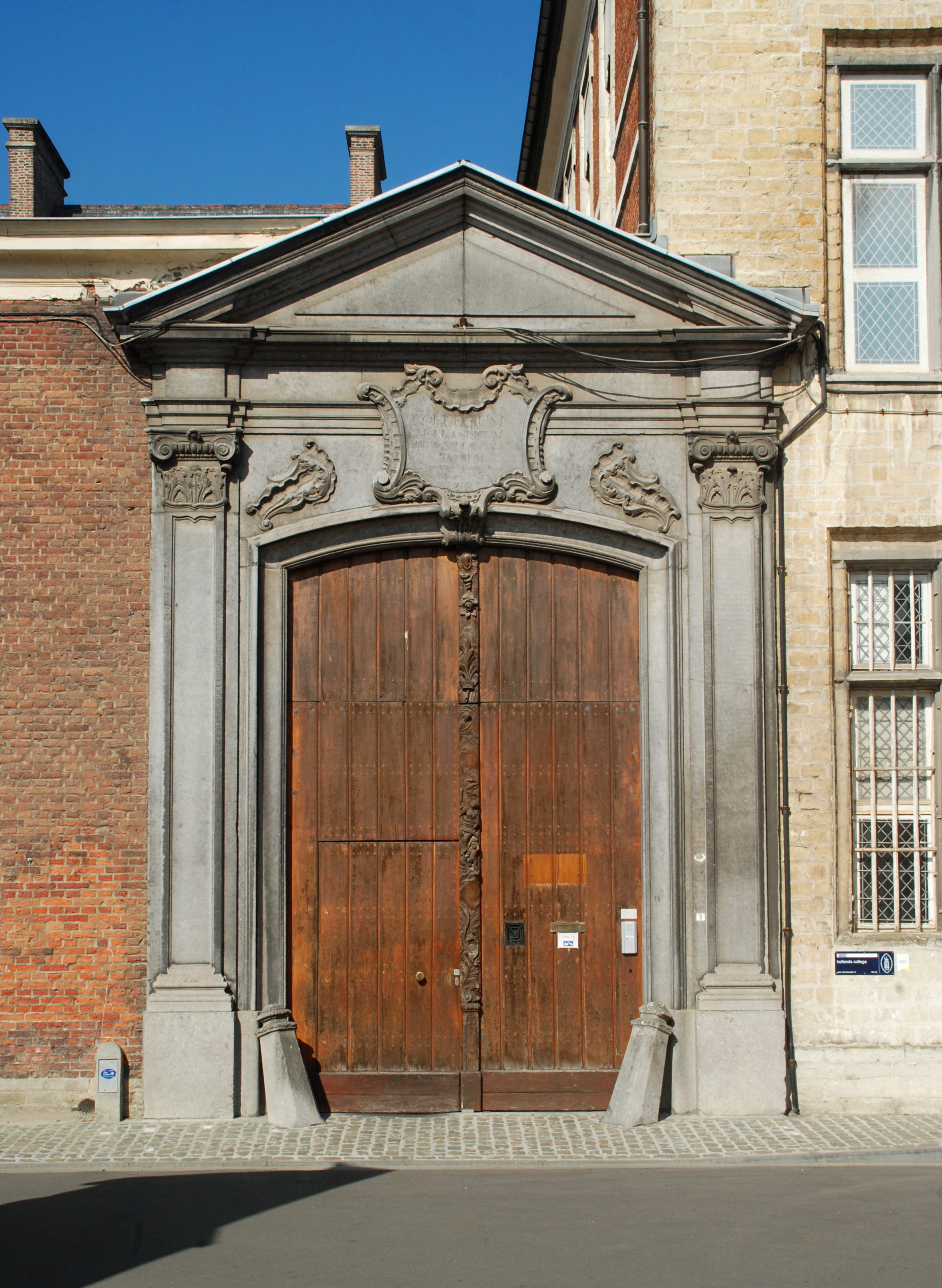 Belgium - Leuven - Holland College